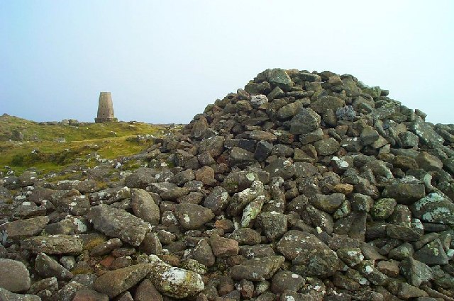 Cosdon Beacon. One of the cairns on Cosdon Hill with the OS triangulation point (SX 637915). Cosdon is one of the largest hills of north Dartmoor.